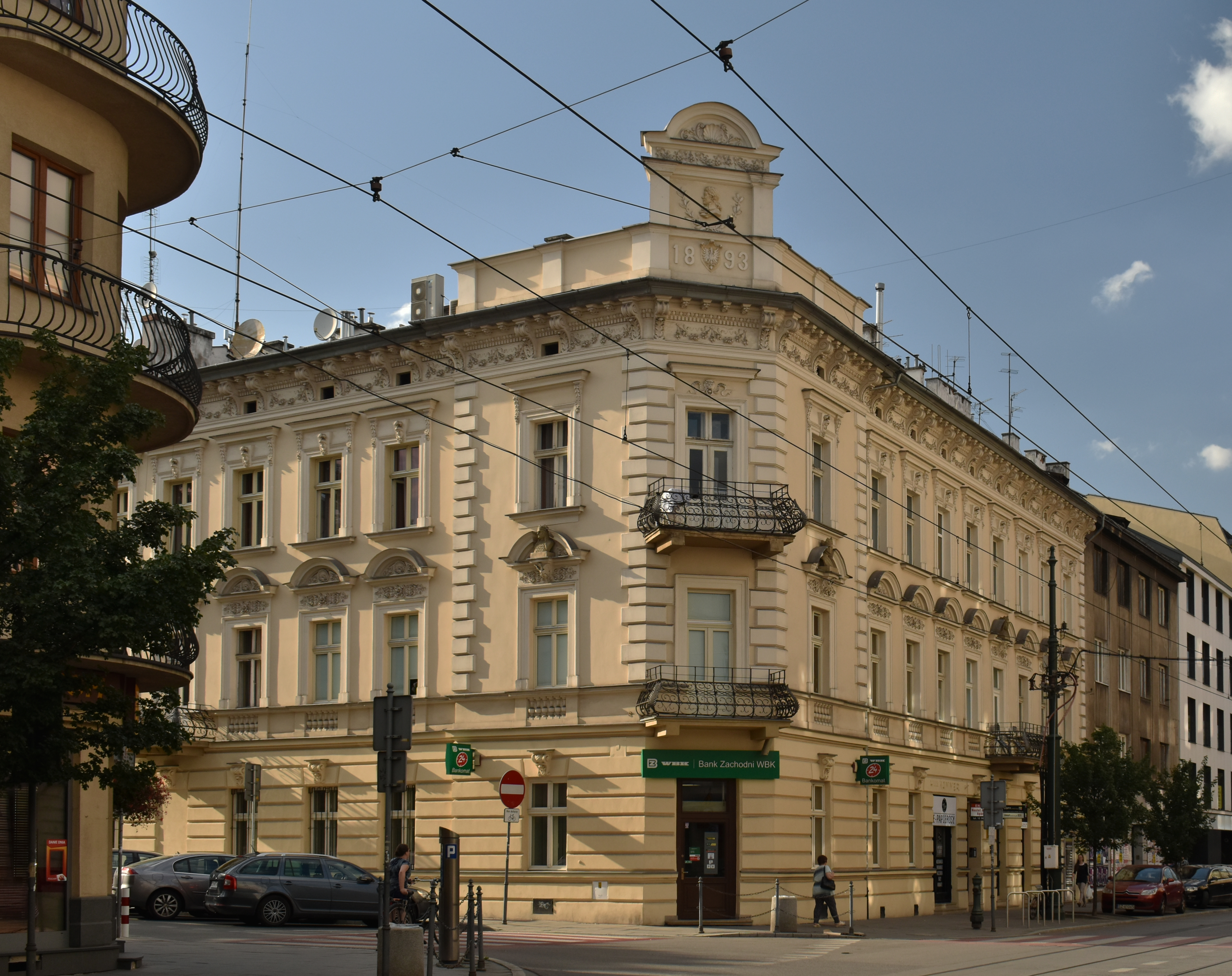 Tenement (1893, designed by arch. Beniamin Torbe), 12 Rakowicka street, Krakow, Poland